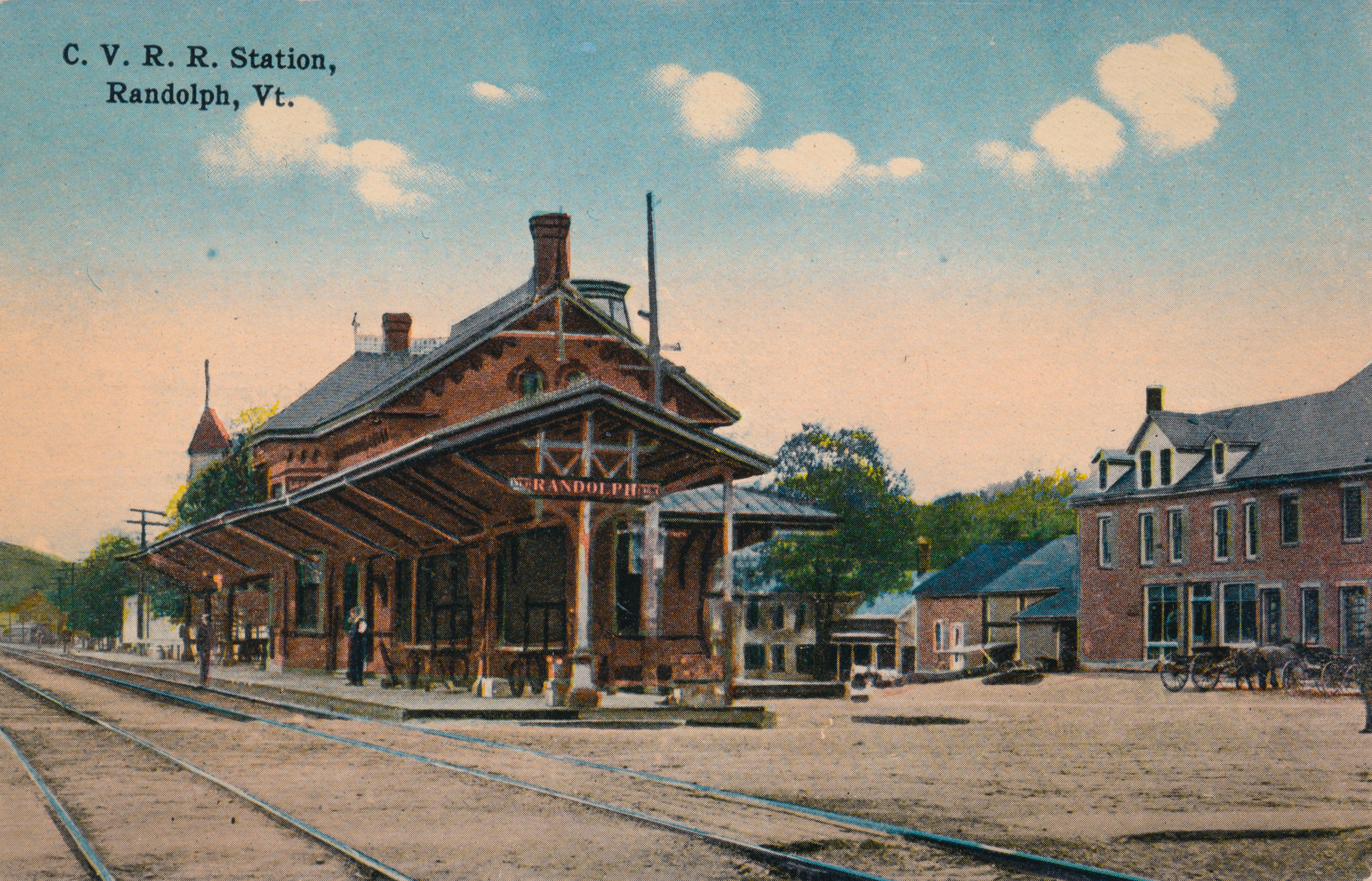 An early image of the Central Vermont Railroad station in Randolph, Vermont.